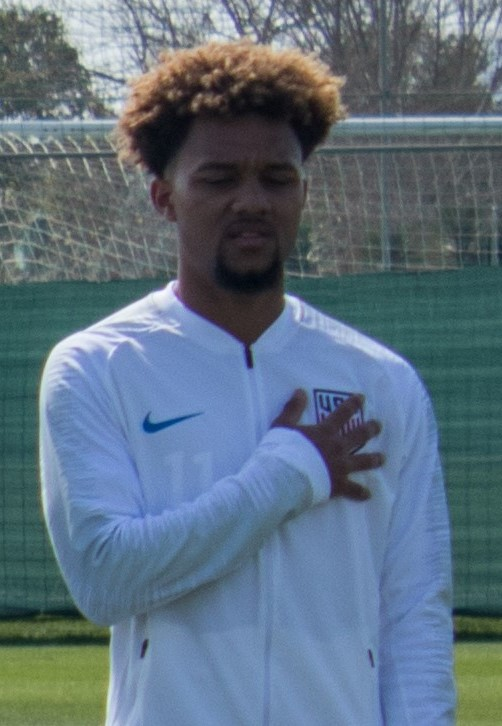 playing for the United States against France